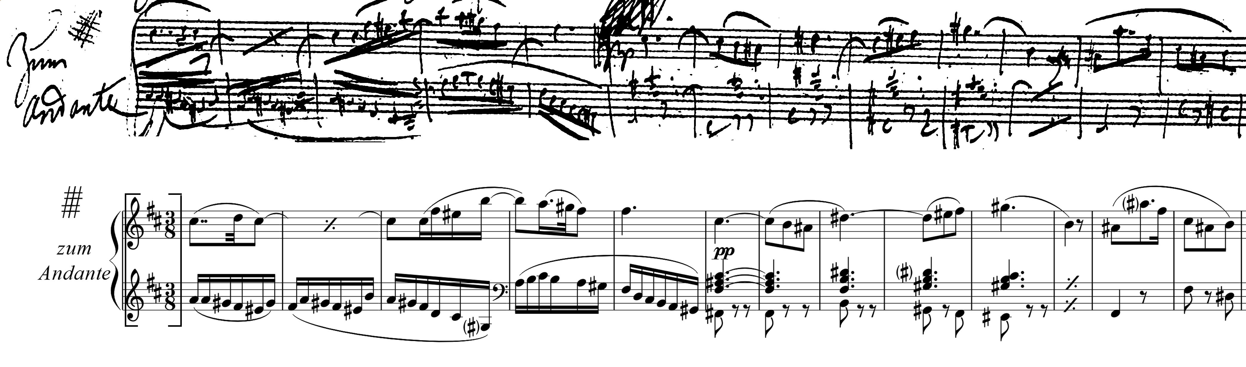 Theme in F# major that Schubert added as an afterthought to the 2nd mov. of his 10th Symphony. It was found along the sketches of the 3rd mov. It's labelled "Zum Andante" (for the Andante). Manuscript scan + typeset.